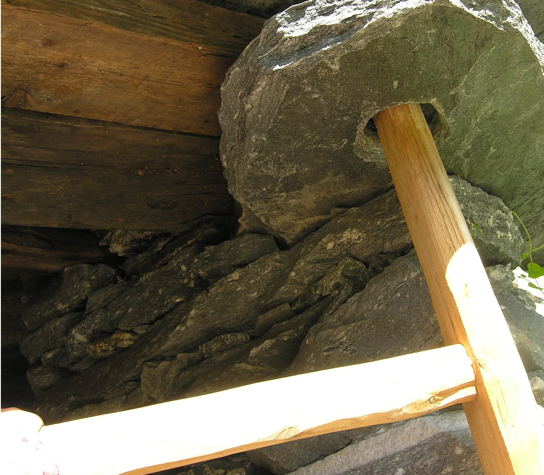 Old construction of hinges in the dry stone wall near Bignasco, Swiss Italian part